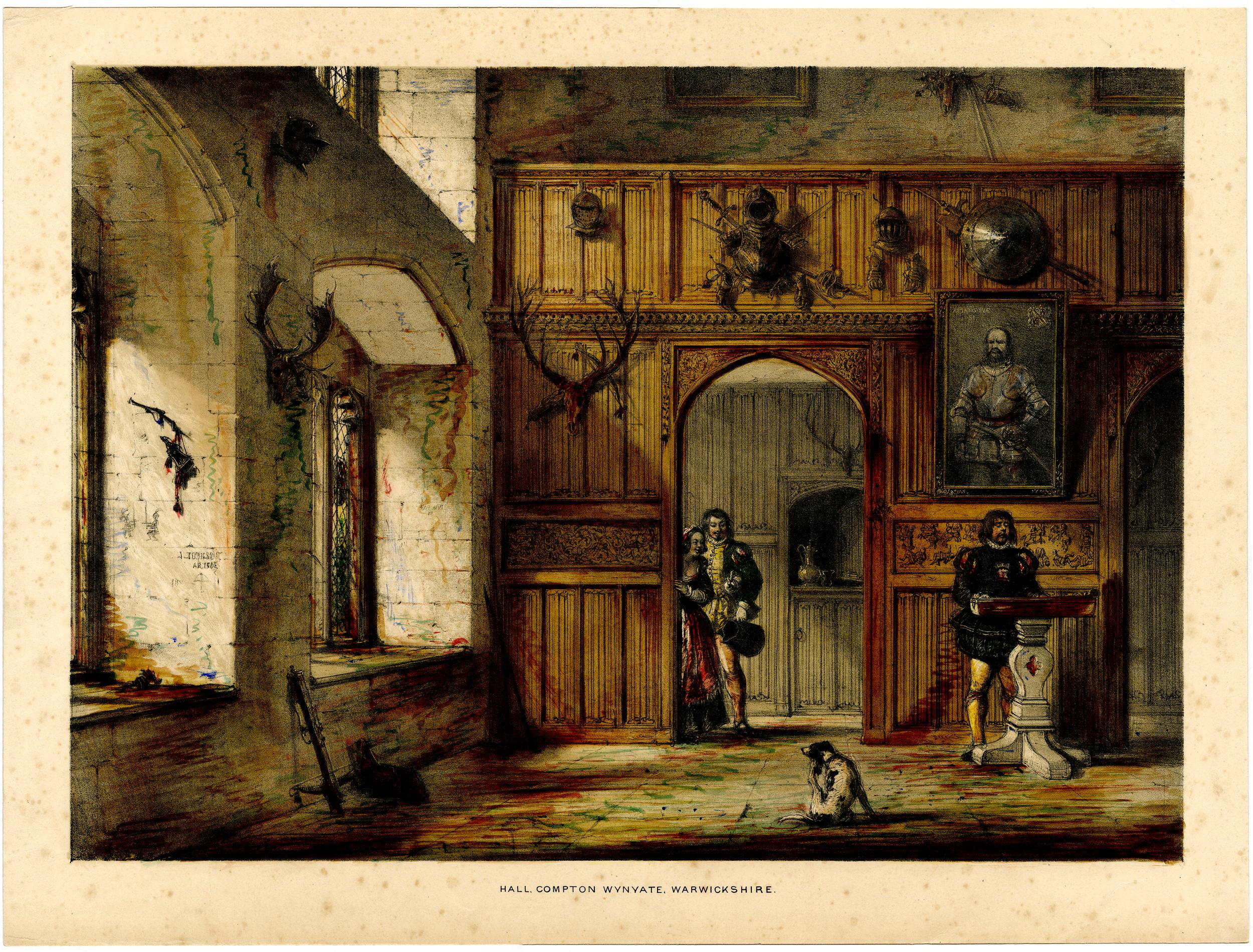 View of the interior of the room with wooden panelling in the background, a man standing to right and a couple looking at him from outside the room, a dog seated at centre; plate LXXV. 1841 Hand-coloured lithograph